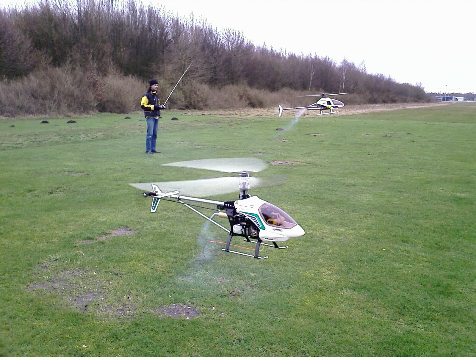 Radiocontrolled Helikopter